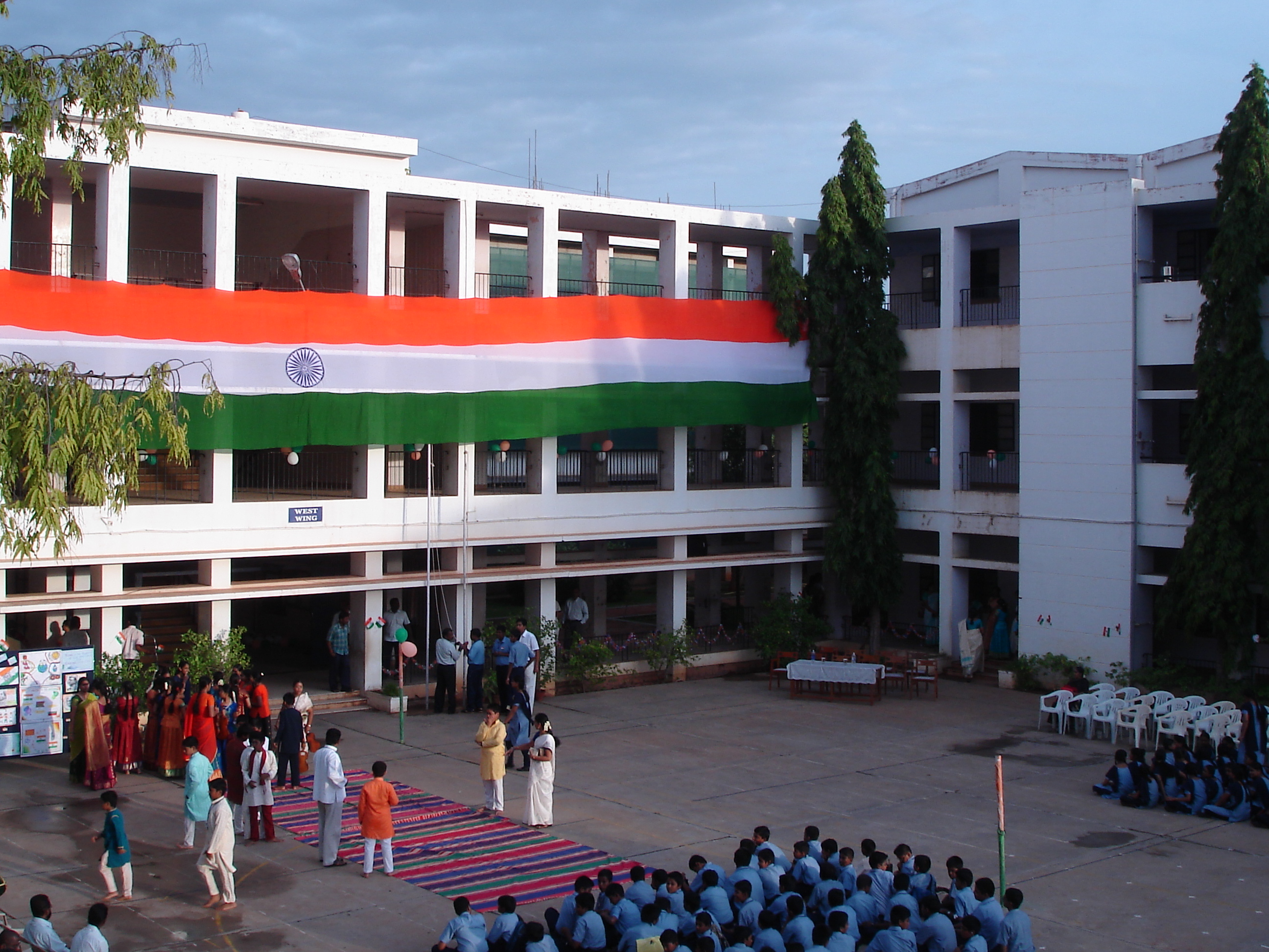 My school Independence Day Celeb